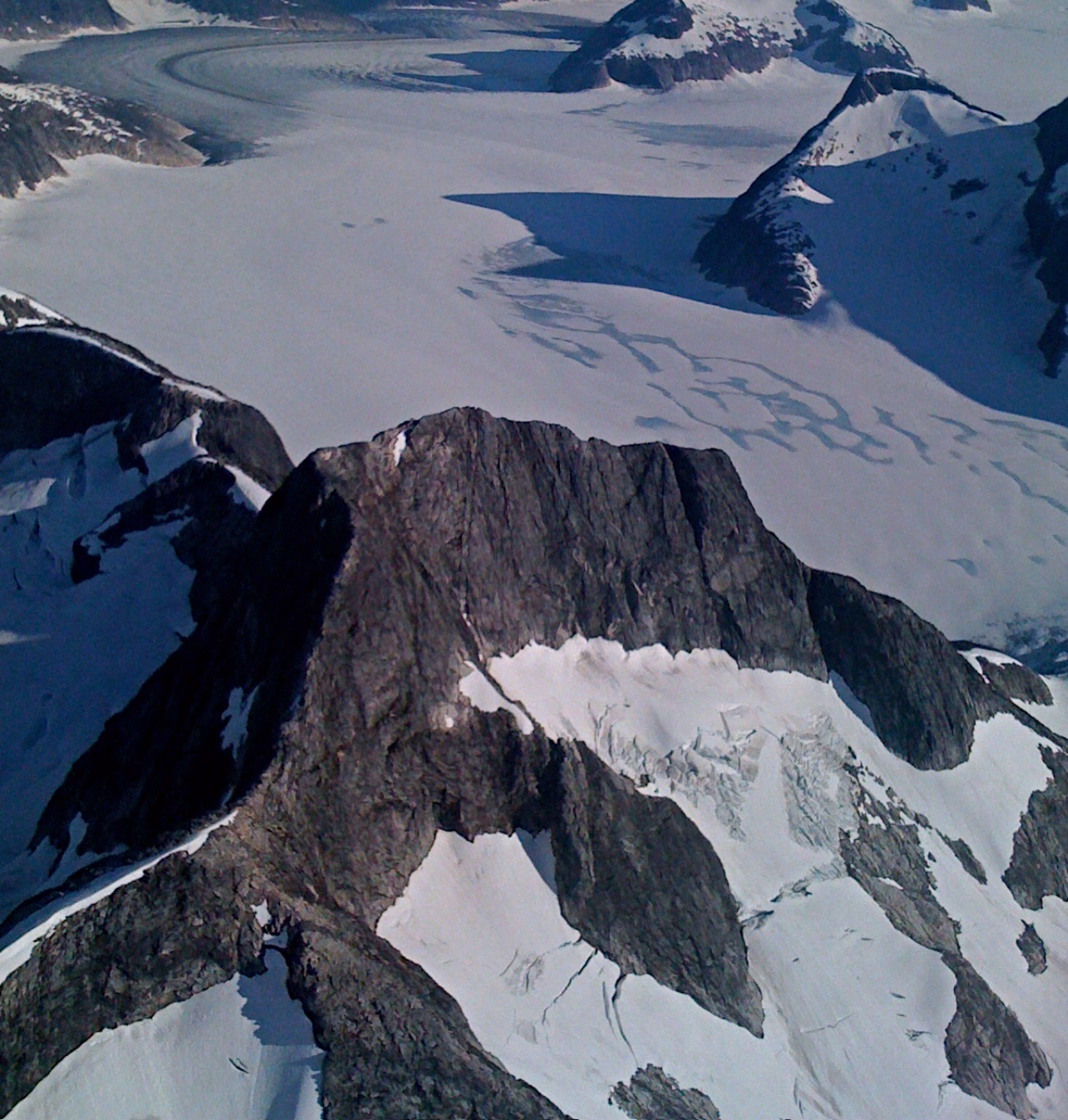 Aerial view looking south at Slanting Peak and Norris Glacier at Juneau Icefield, Alaska